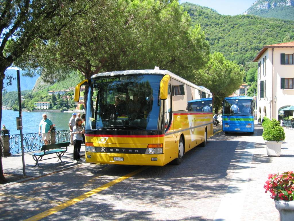 Palm-Express in Menaggio, Italy.